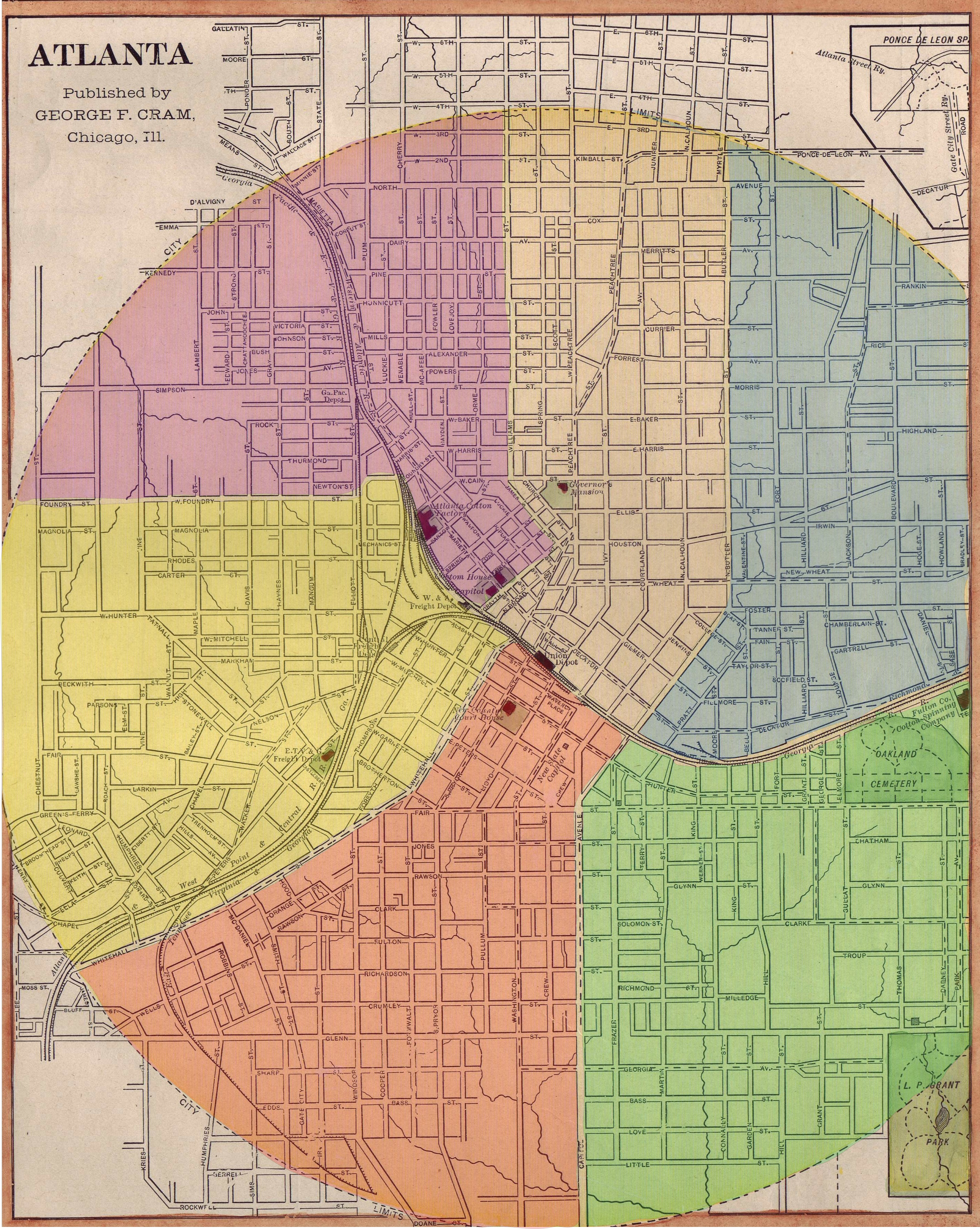 Layout of Atlanta's Ward System in 1883 after adding a Sixth Ward. I layered this over a Public Domain map from 1890 that I scanned. Software was the Mighty-mighty-Inkscape! Great software!